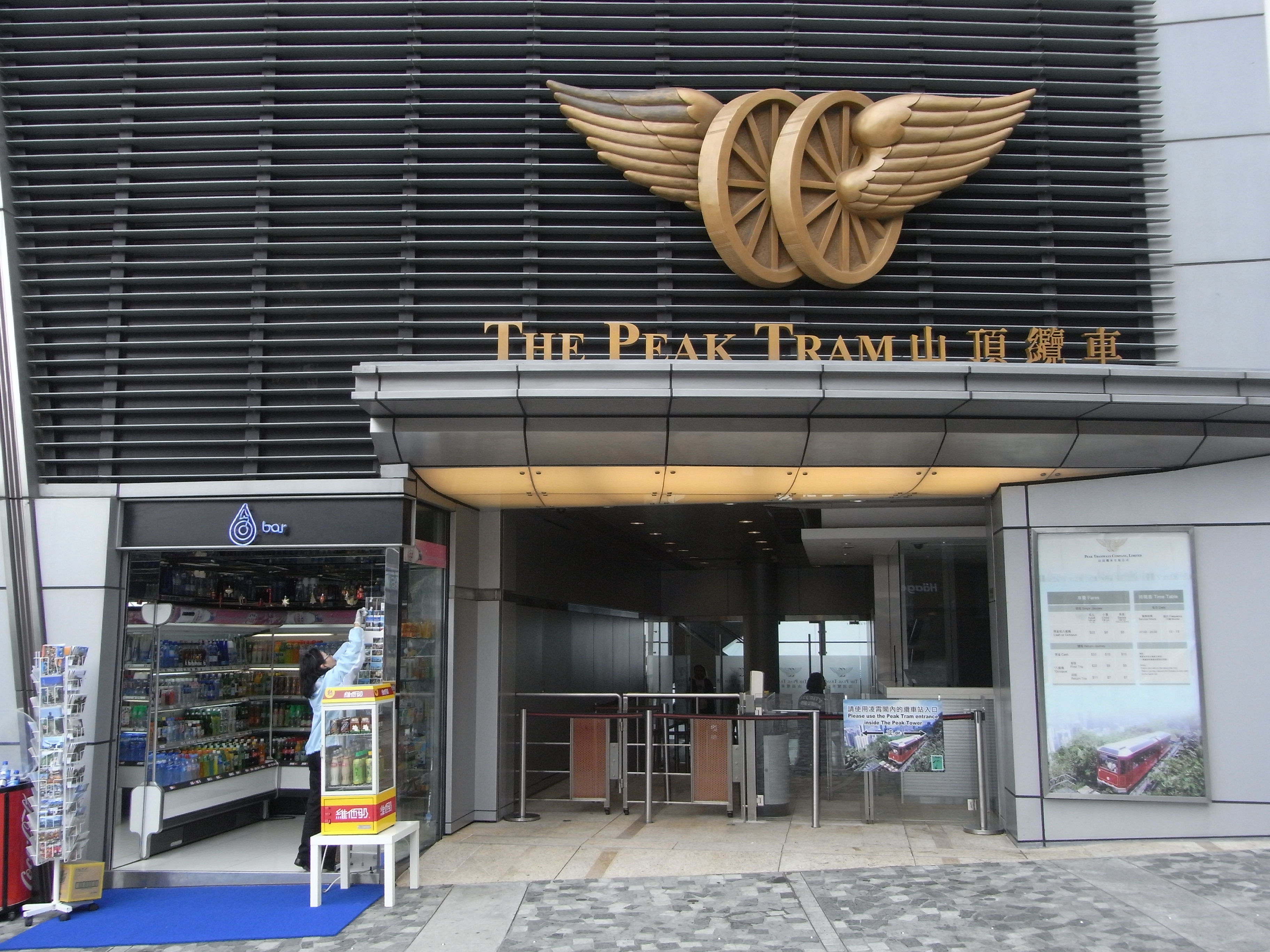 香港太平山山頂 芬梨道 凌霄閣